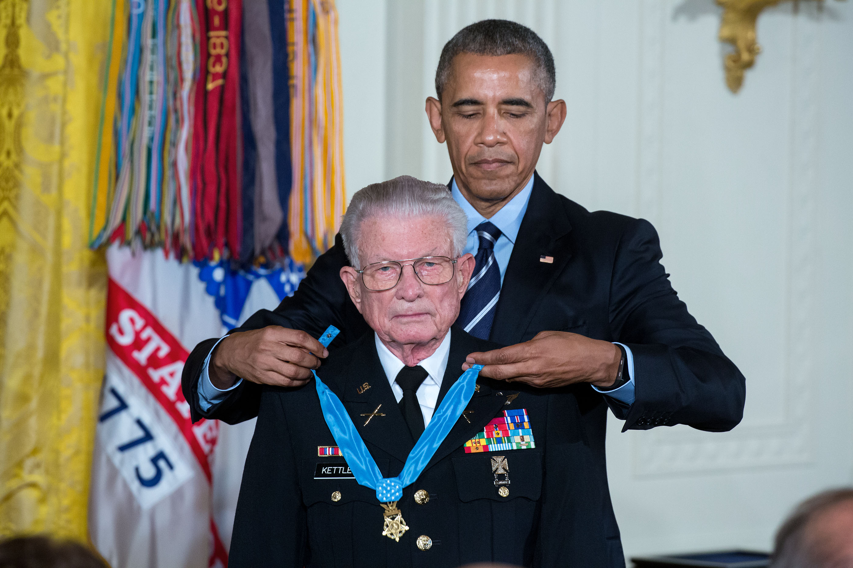 President Barack Obama presents the Medal of Honor to retired U.S. Army Lieutenant Colonel Charles Kettles for conspicuous gallantry, in the East Room of the White House, July 18, 2016. Then-Major Kettles distinguished himself in combat operations near Duc Pho, Republic of Vietnam, on May 15, 1967 and is credited with saving the lives of 40 soldiers and four of his own crew members. (Official White House Photo by Chuck Kennedy)